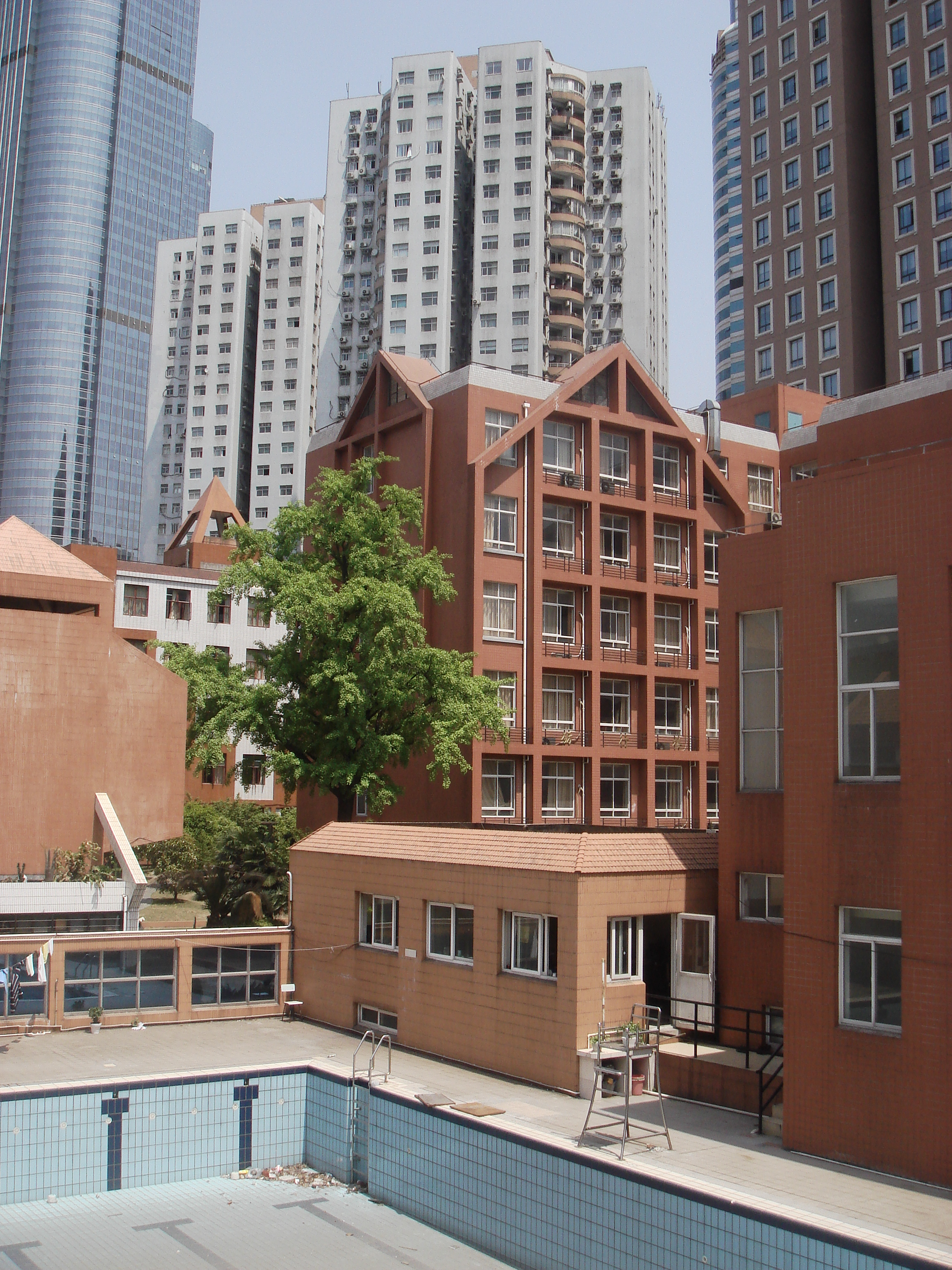 This is the south part of Xuhui High School.